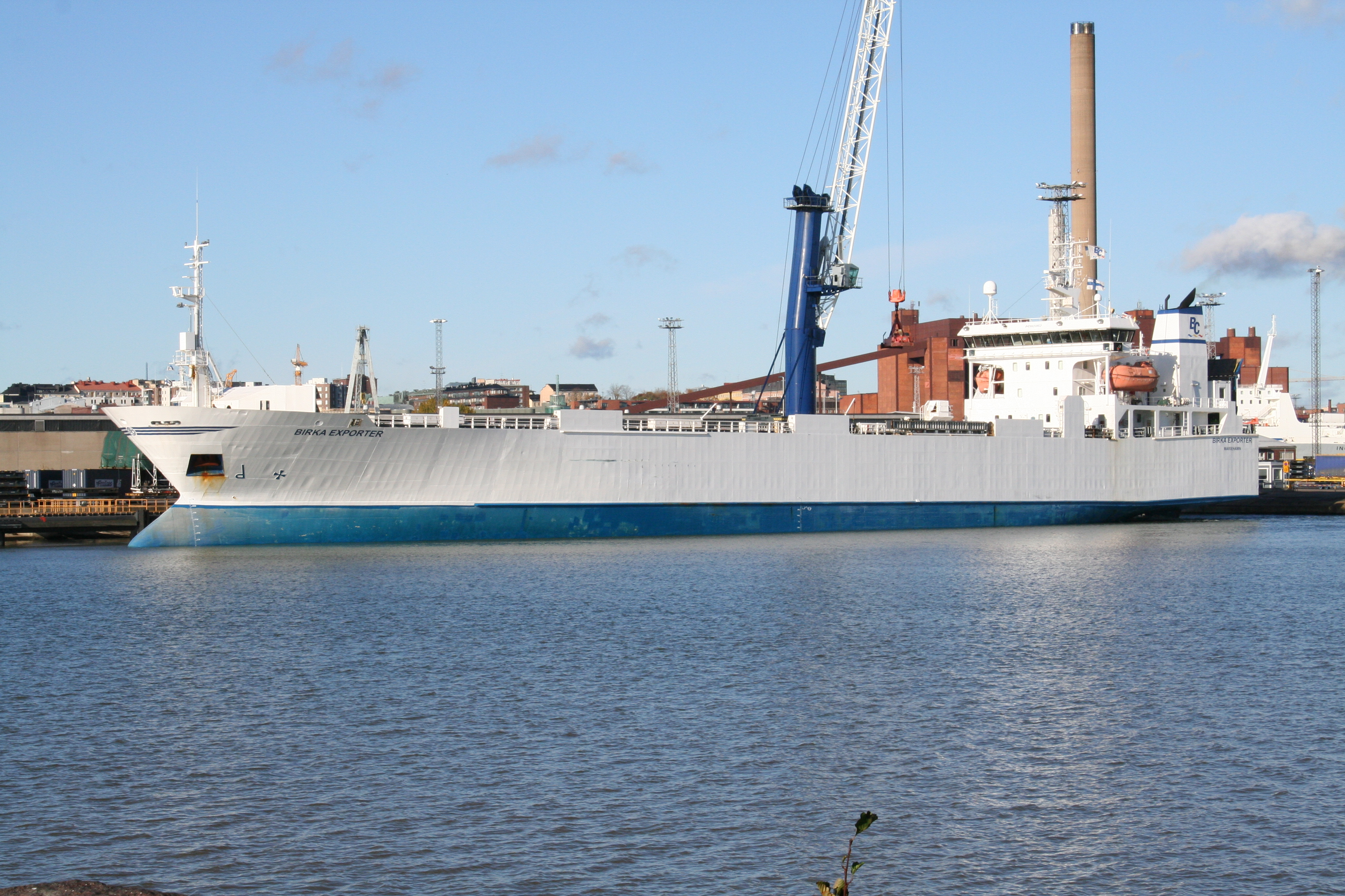 Birka Cargo ro-ro freighter MS Birka Exporter at Sompasaari Harbour, Helsinki. IMO Number: 8820860 MMSI Number: 230204000 Callsign: OJDA Length: 122 m Beam: 18 m